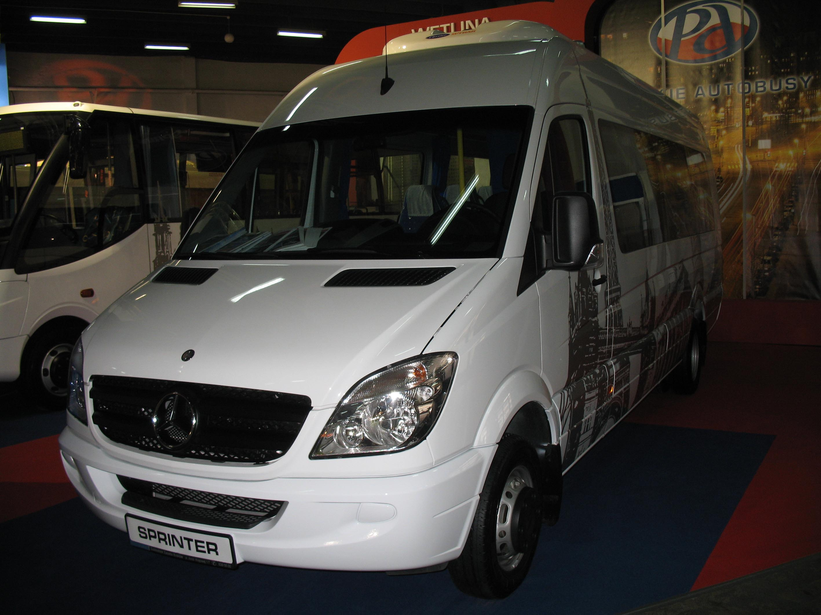 Autosan Mercedes-Benz Sprinter 518 CDI bus in Kielce, Poland. Built 2008, Transexpo 2008.